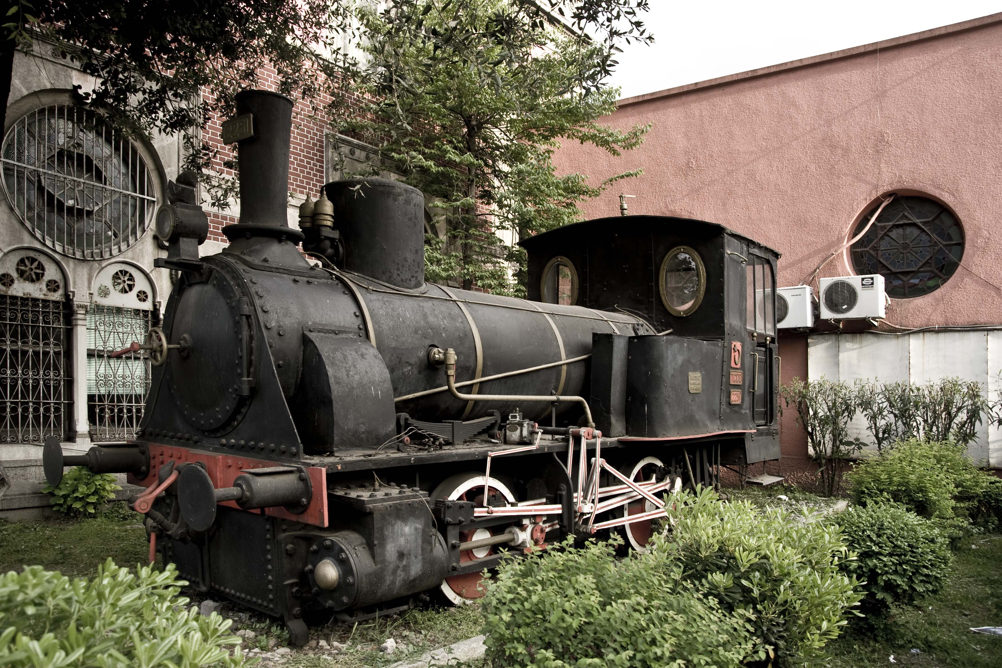 Steam engine displayed in front of the Sirkeci station in Istanbul